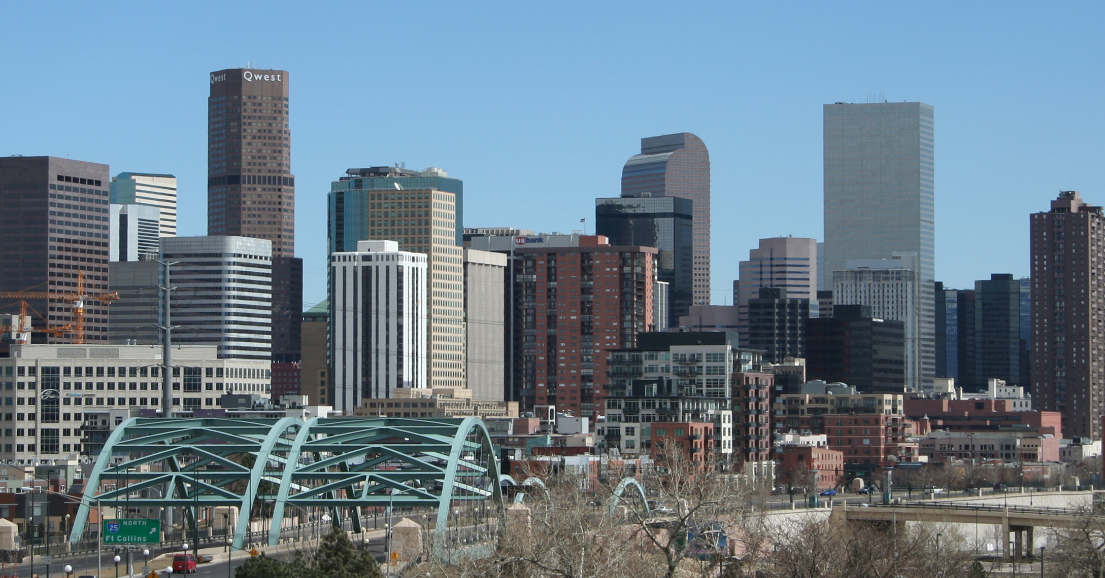 Denver skyline from I-25 and Speer Blvd. Photographer: Matt Wright Date: March 26, 2006 Camera: Canon EOS Rebel XT